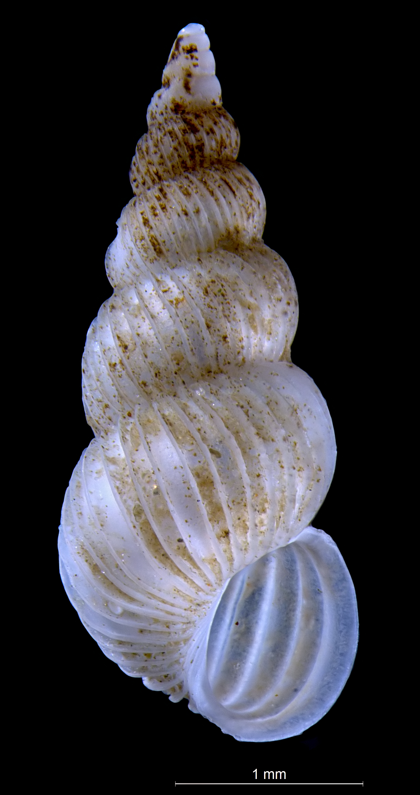 A benthic gastropod from the Belgian part of the North Sea. Height = 5 mm Focus stacking of 20 pictures.